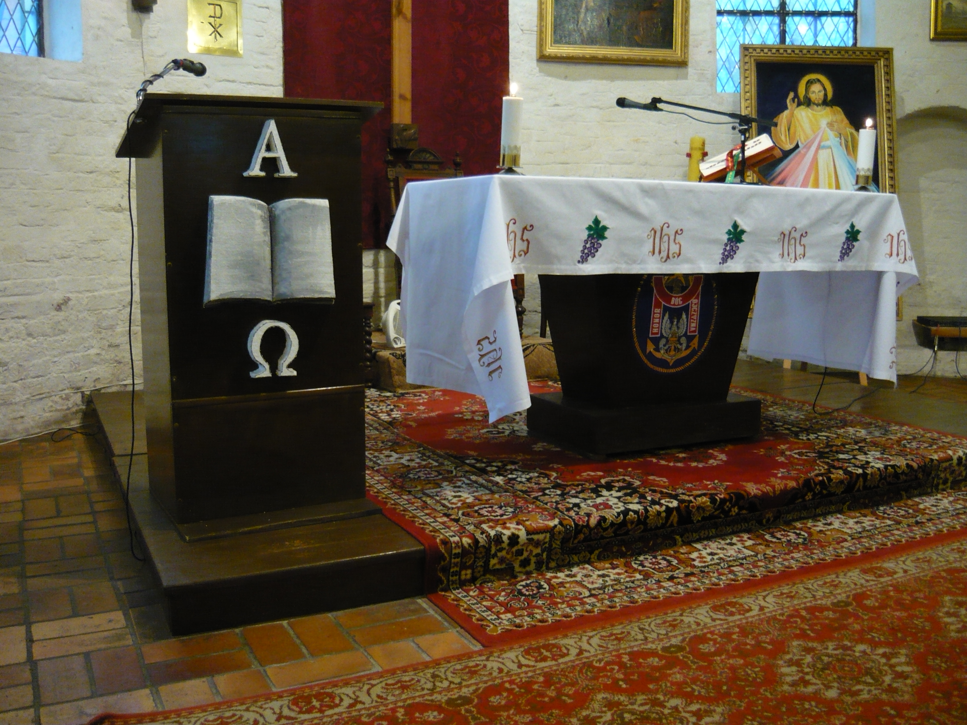 Altar of the Saint George Church in Darłowo.